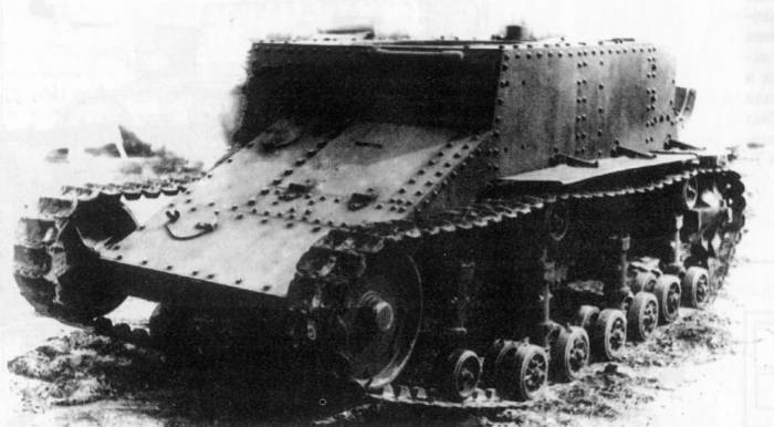 Soviet experimental tankette T-23.